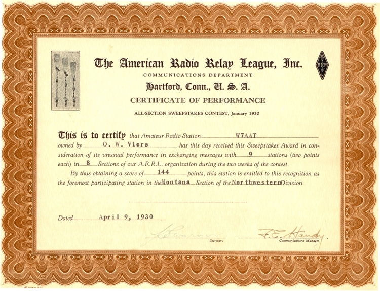 amateur radio contest diploma